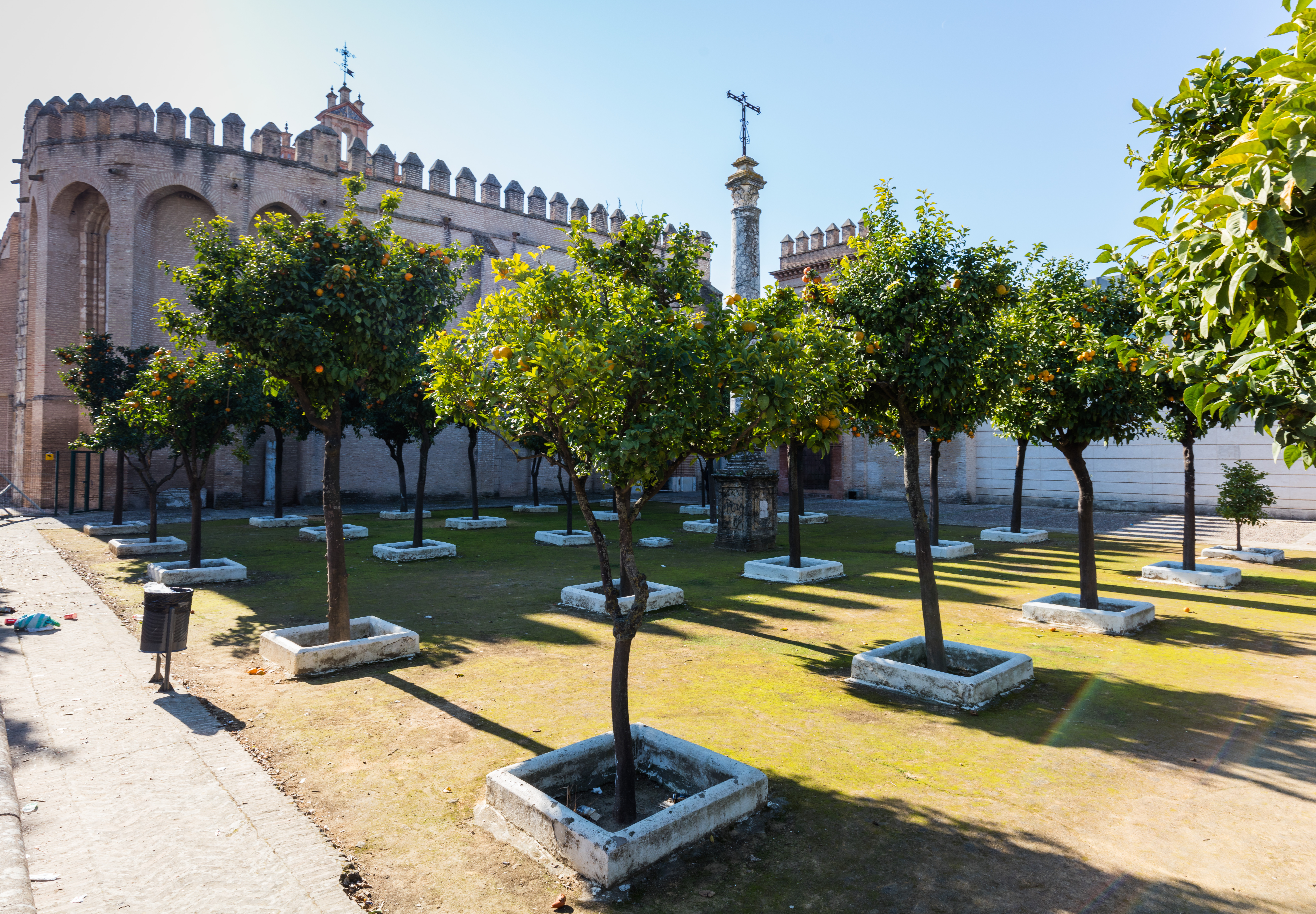 Monastery of San Isidoro del Campo, Santiponce, Seville, Spain